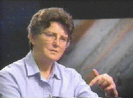 Reta Beebe, astronomer, in a screenshot from NASA's Passport to Knowledge TV program titled "Live from the Hubble Space Telescope". Episode #101, "The Great Planet Debate".